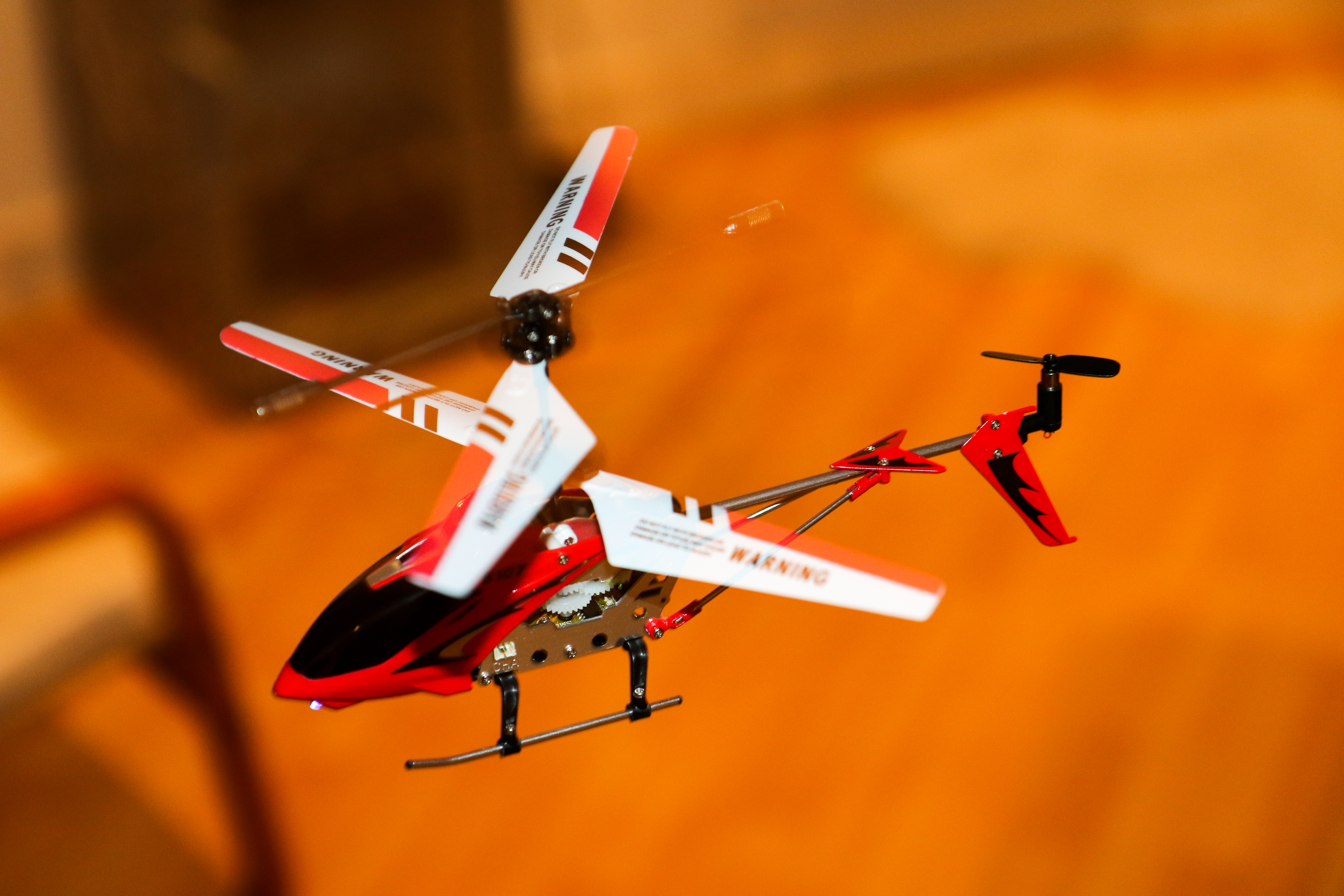 Syma Radio controlled model helicopter flying